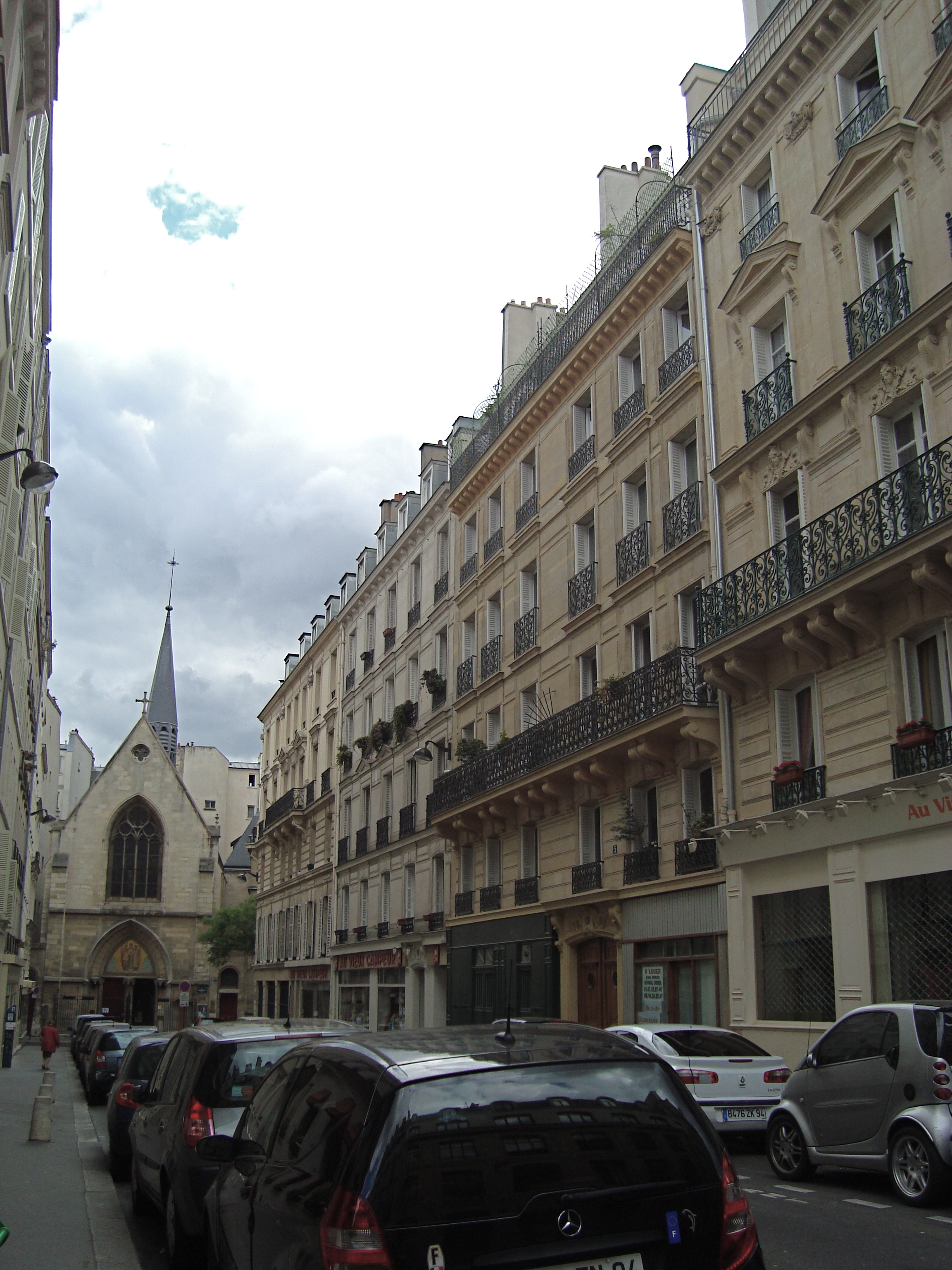 Rue de Latran in Paris